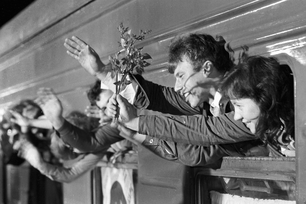 “All-union Komsomol shock brigade”. Members of the All-union Komsomol shock brigade named after the 19th VLKSM (Young Communists Organization) congress leaving to implement Soviet top-priority projects.